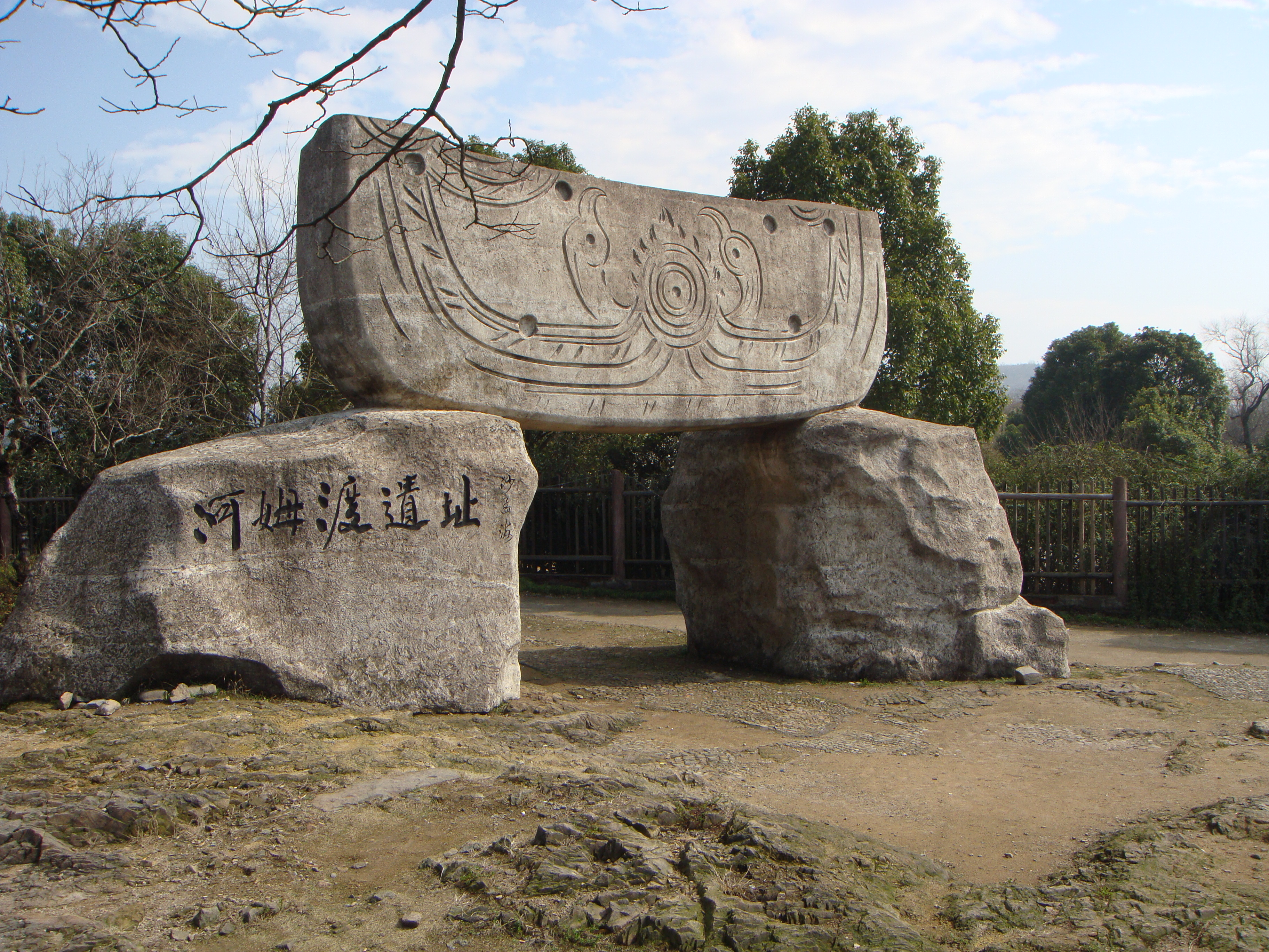 Statue of the butterfly-shaped ivory vessel with the pattern of two birds facing the sun, excavated at Hemudu Site